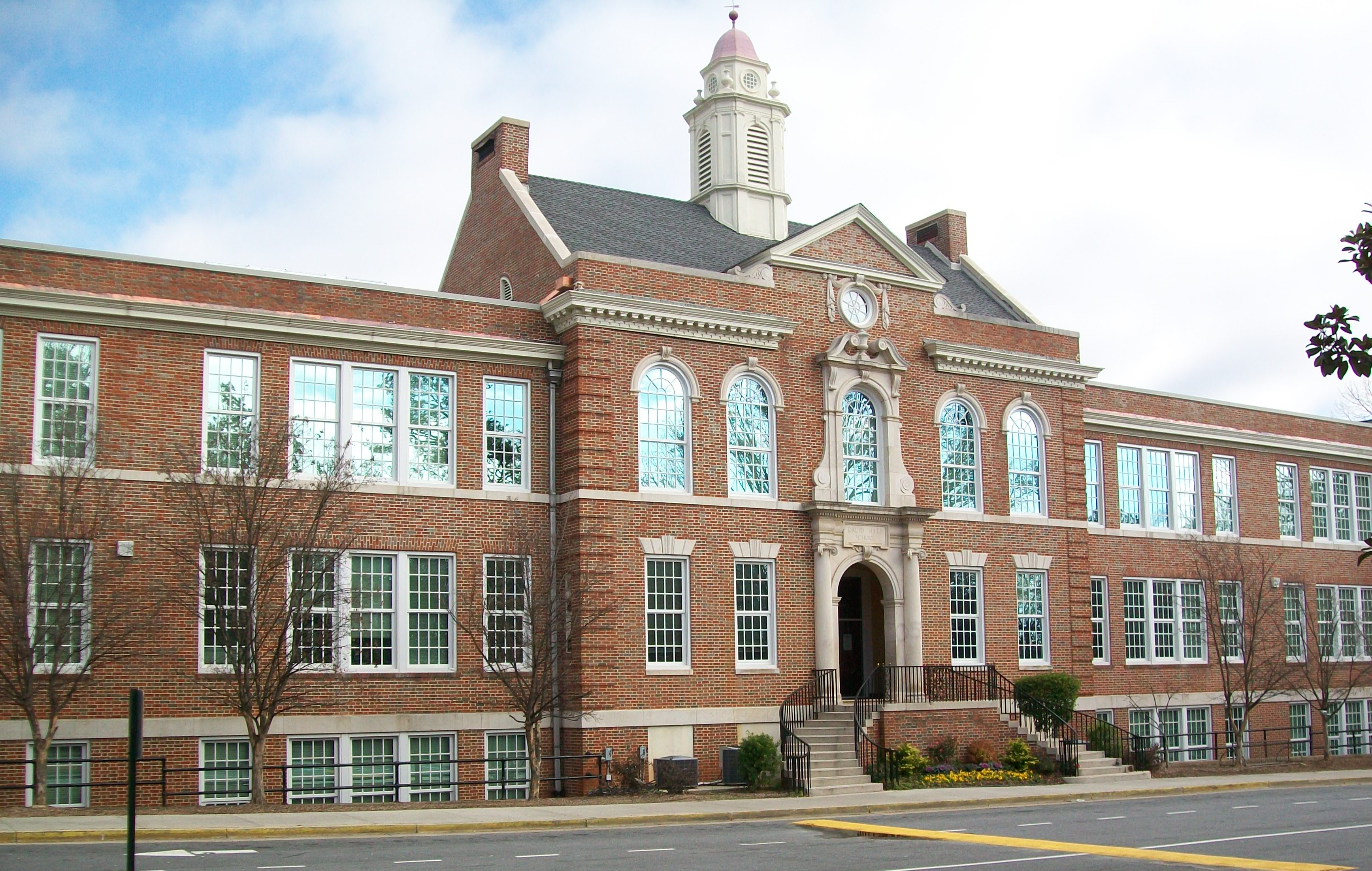 The main building of Druid Hills High School as viewed from the picnic area in front of the school.